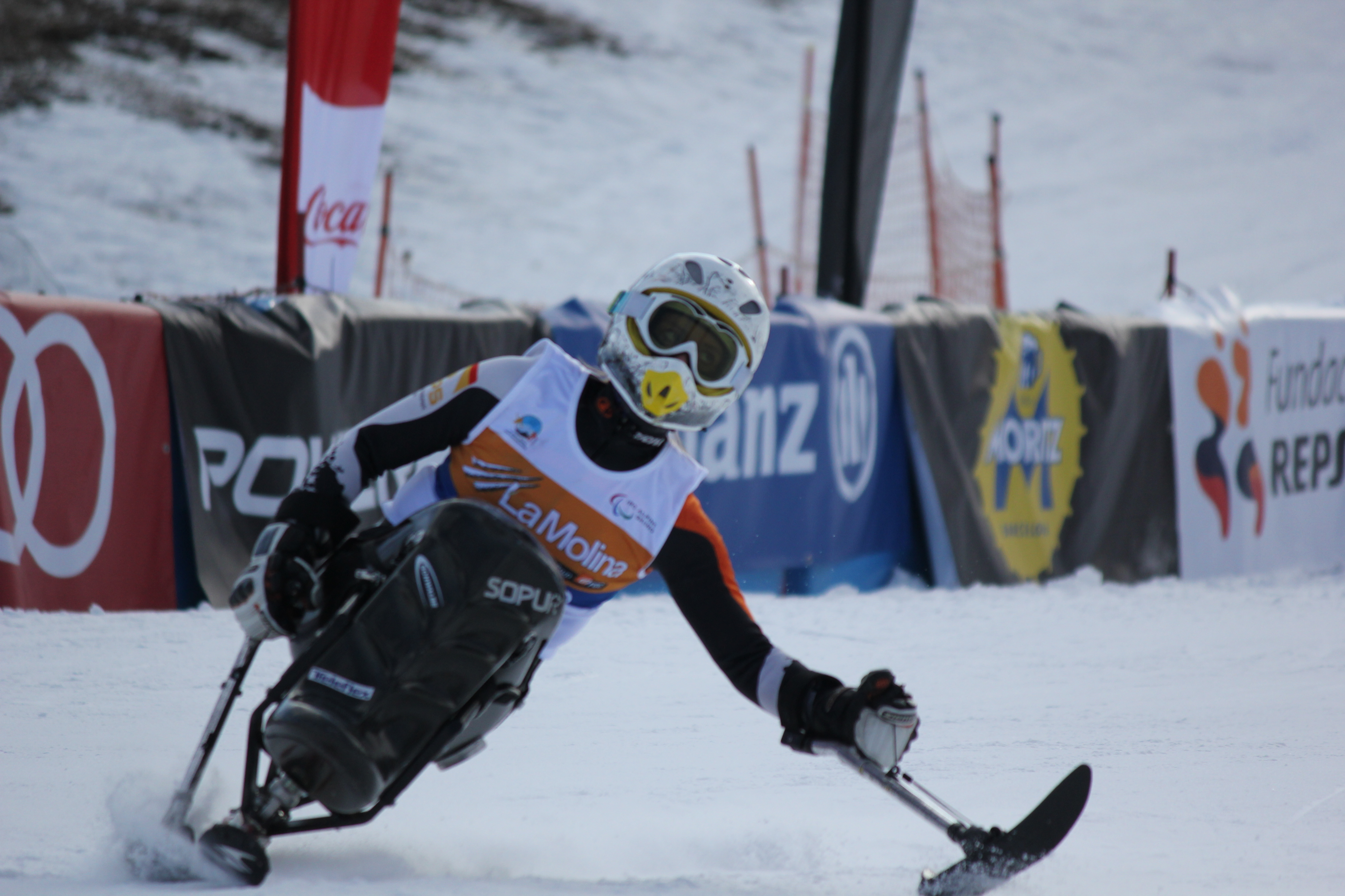 Anna Schaffelhuber of Germany. 2013 IPC Alpine World Championships at La Molina in Spain. Day 3 of competition. Slalom final.